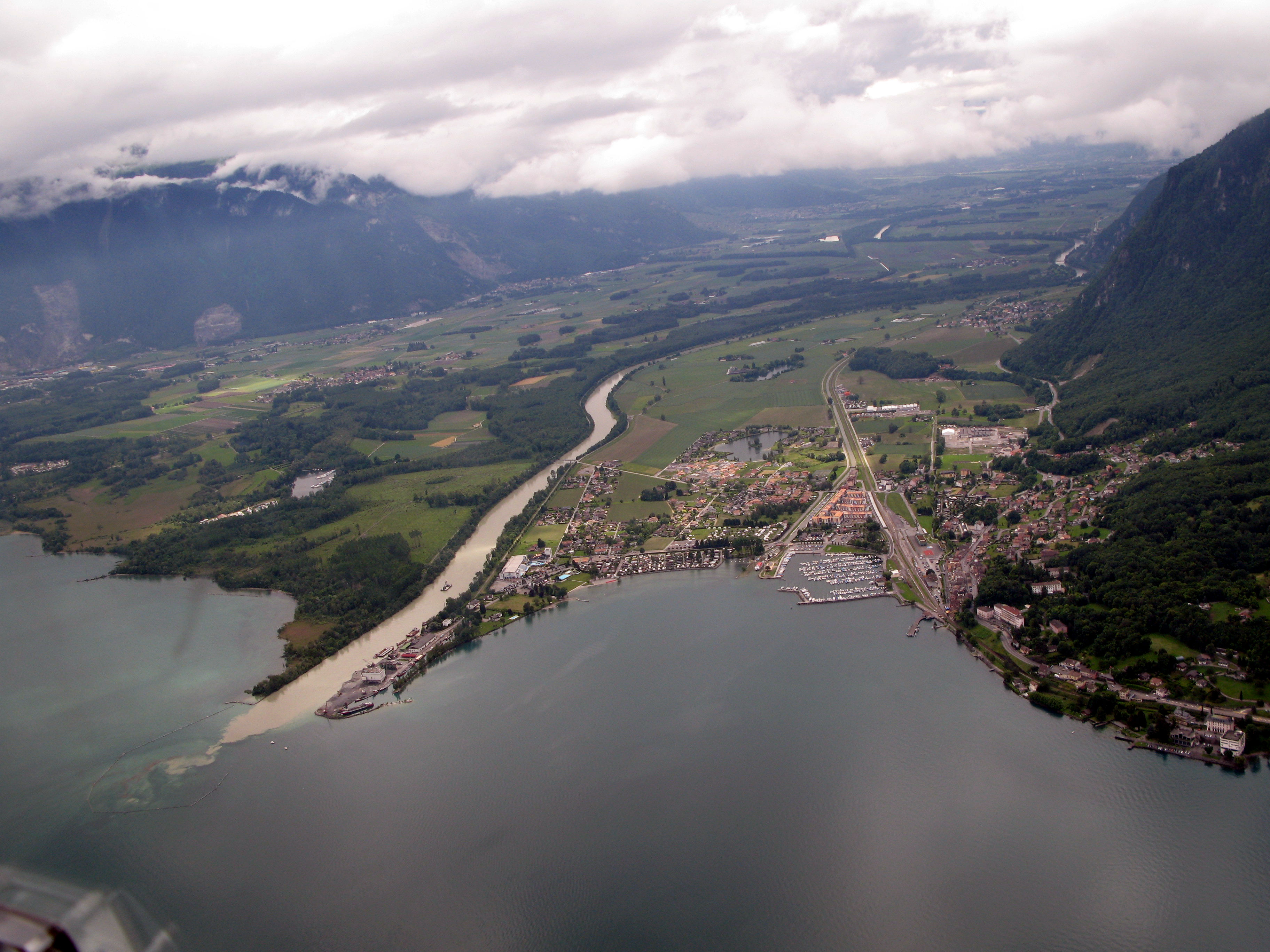 Valley and River Rhône, Lake Geneva, Valais and Vaud